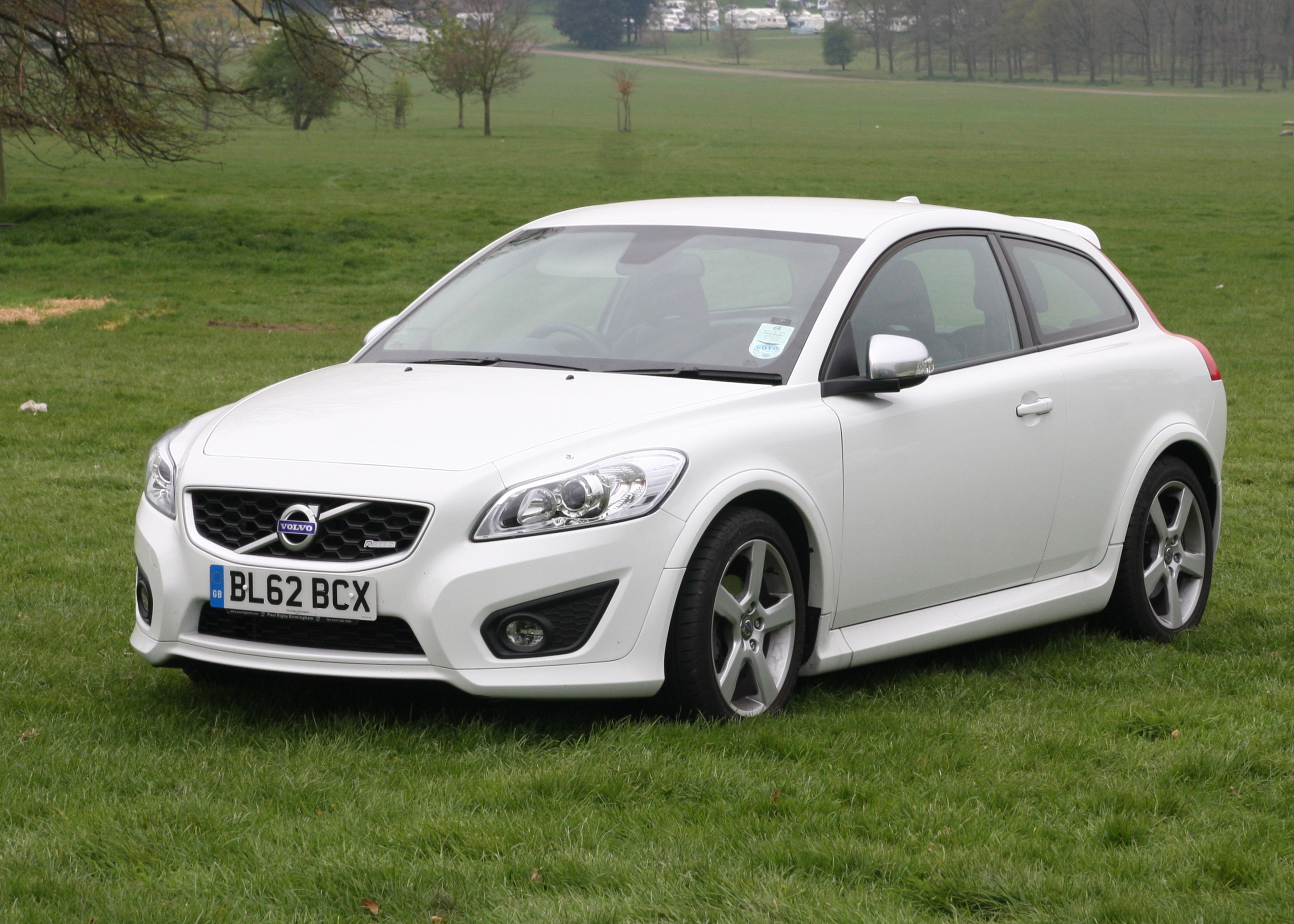 Volvo C30 The license plate has been chanted for anonymisation purposes. The date code remains correct, however.